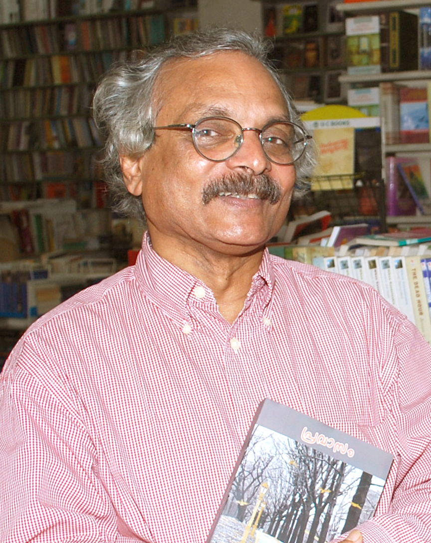 M. Mukundan. One of the pioneers of modernity in Malayalam literature. Sourced from Malayalam Wikipedia : M_mukundan.jpg